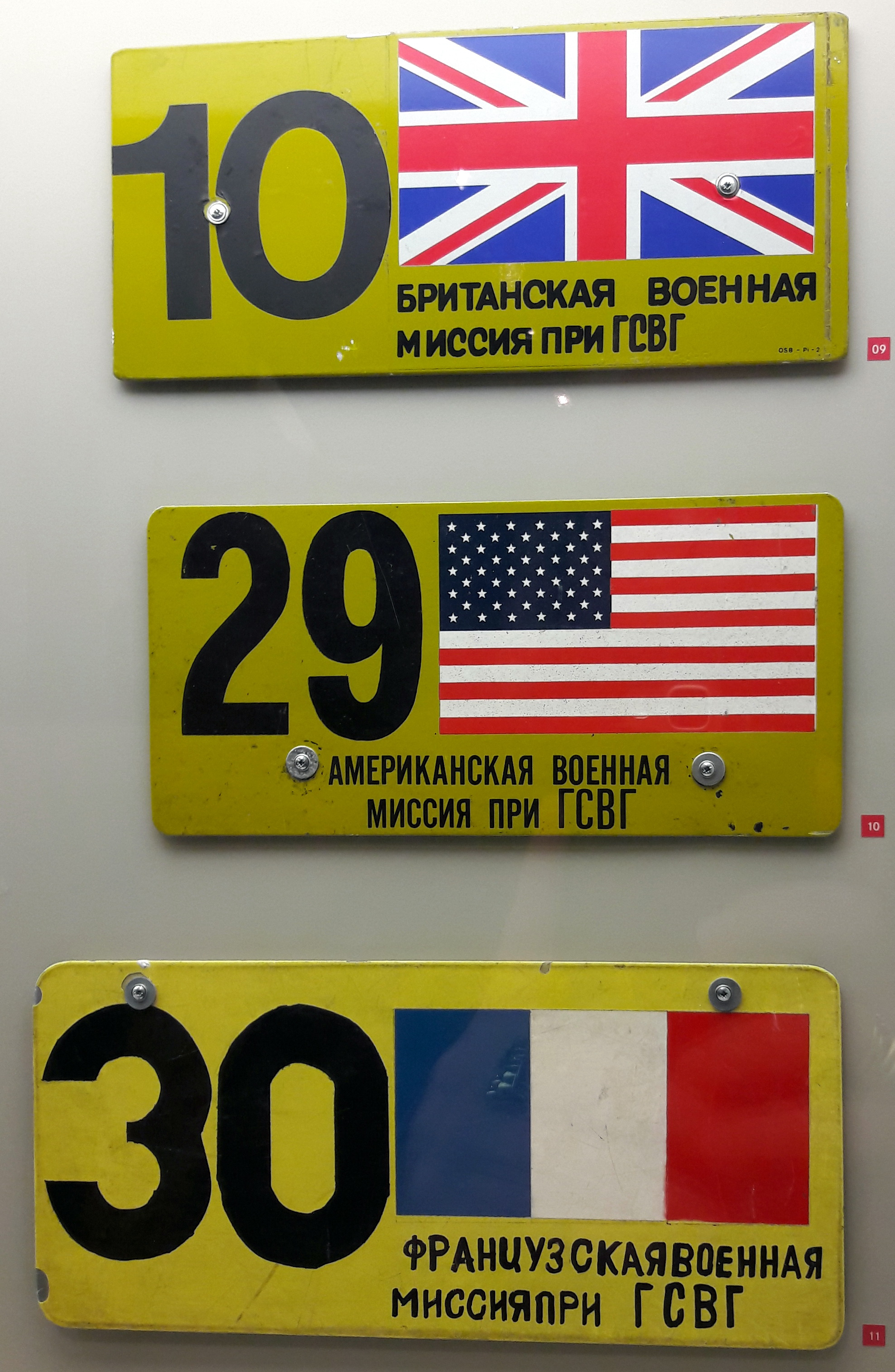 License plates of vehicles of the allied military liaison missions to the soviet Headquarter in Germany - of the British Military Liaison Mission (BRIXMIS) - of the U.S. Military Liaison Mission (USMLM) - of the French Military Liaison Mission (MMFL)